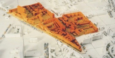 Featured images for Douglas Jarvie Clelland Wikipedia article